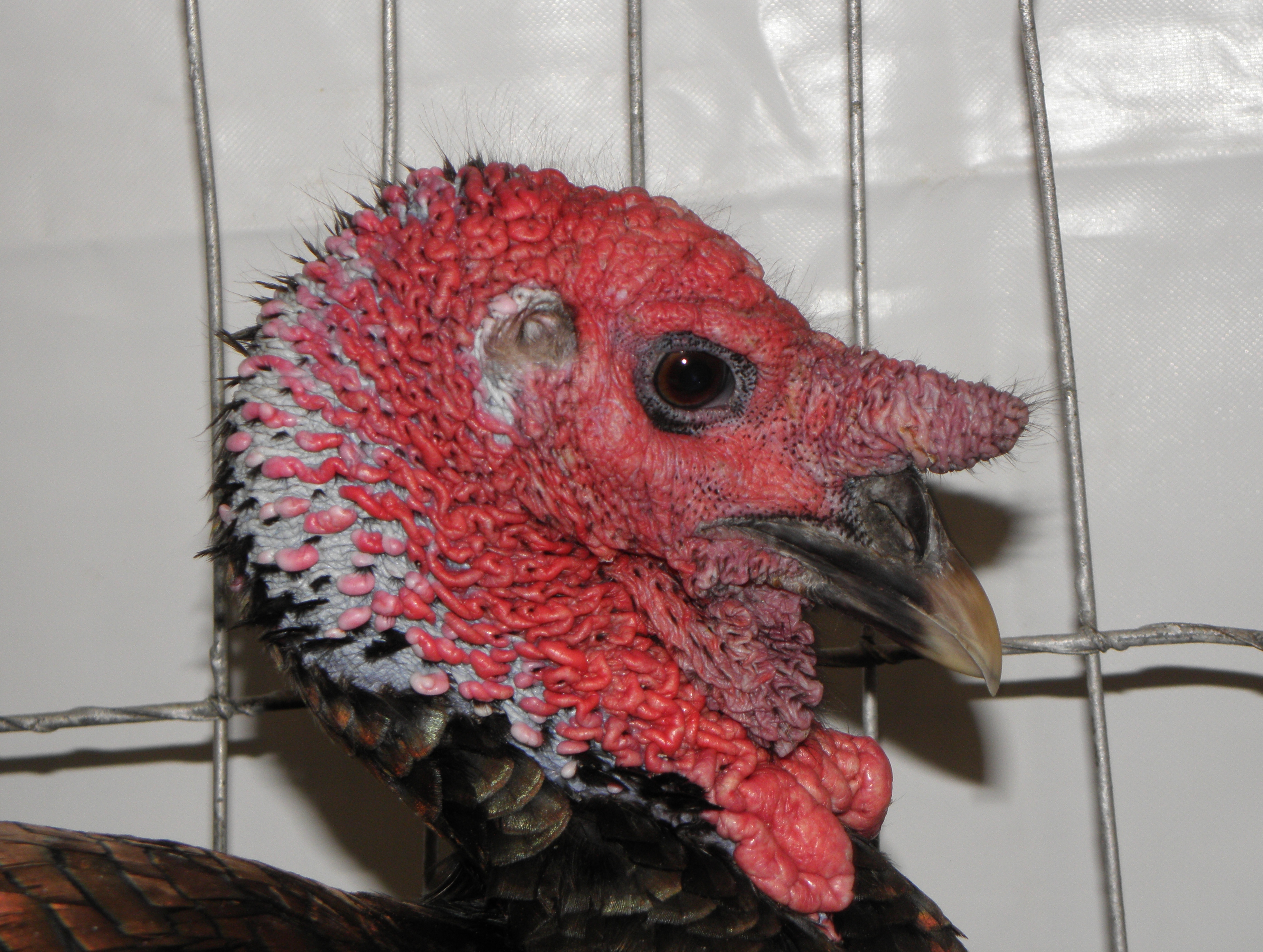 Turkey head.